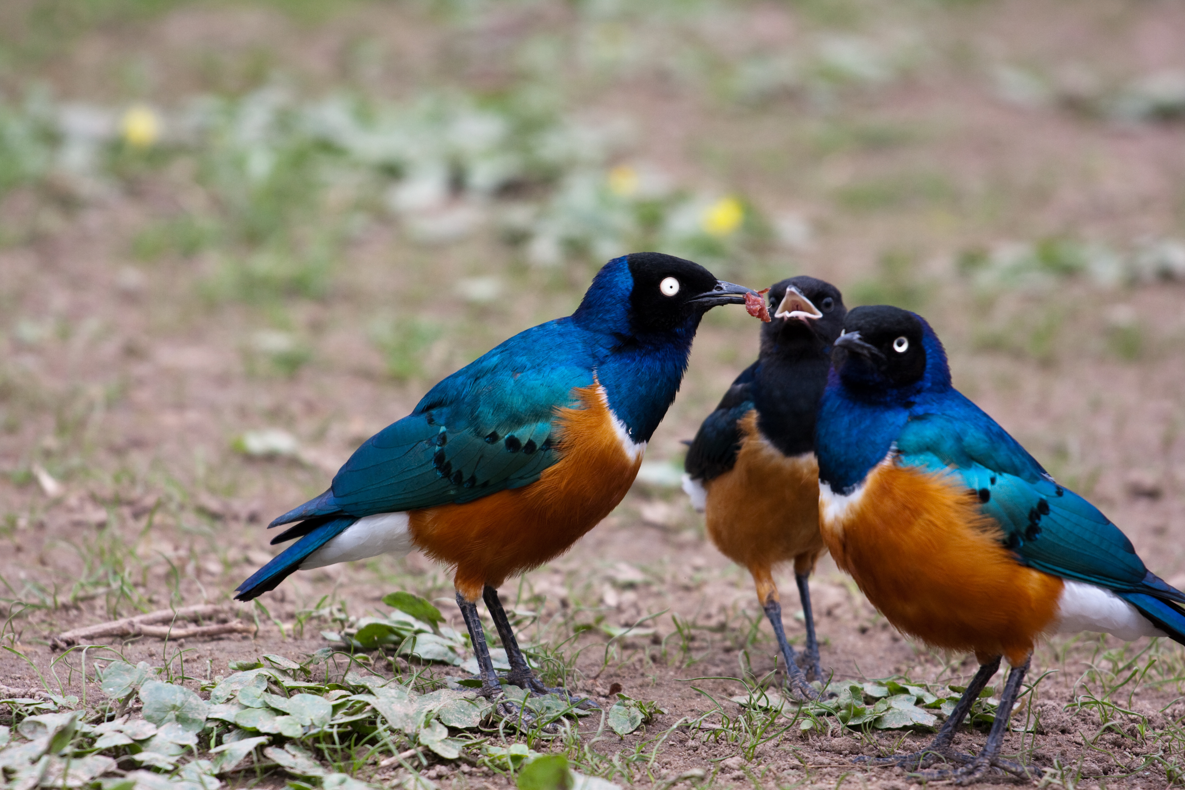 A family of Superb Starlings at Wilhelma Zoo, Stuttgart, Germany. The juvenile is in the middle of two adults.